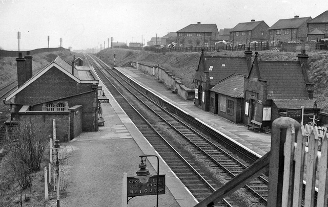 Bryn (Lancs.) Station. View SW, towards St Helens and Liverpool; ex-London & North Western, Liverpool (Lime St.) - St Helens - Wigan secondary main line - still open.